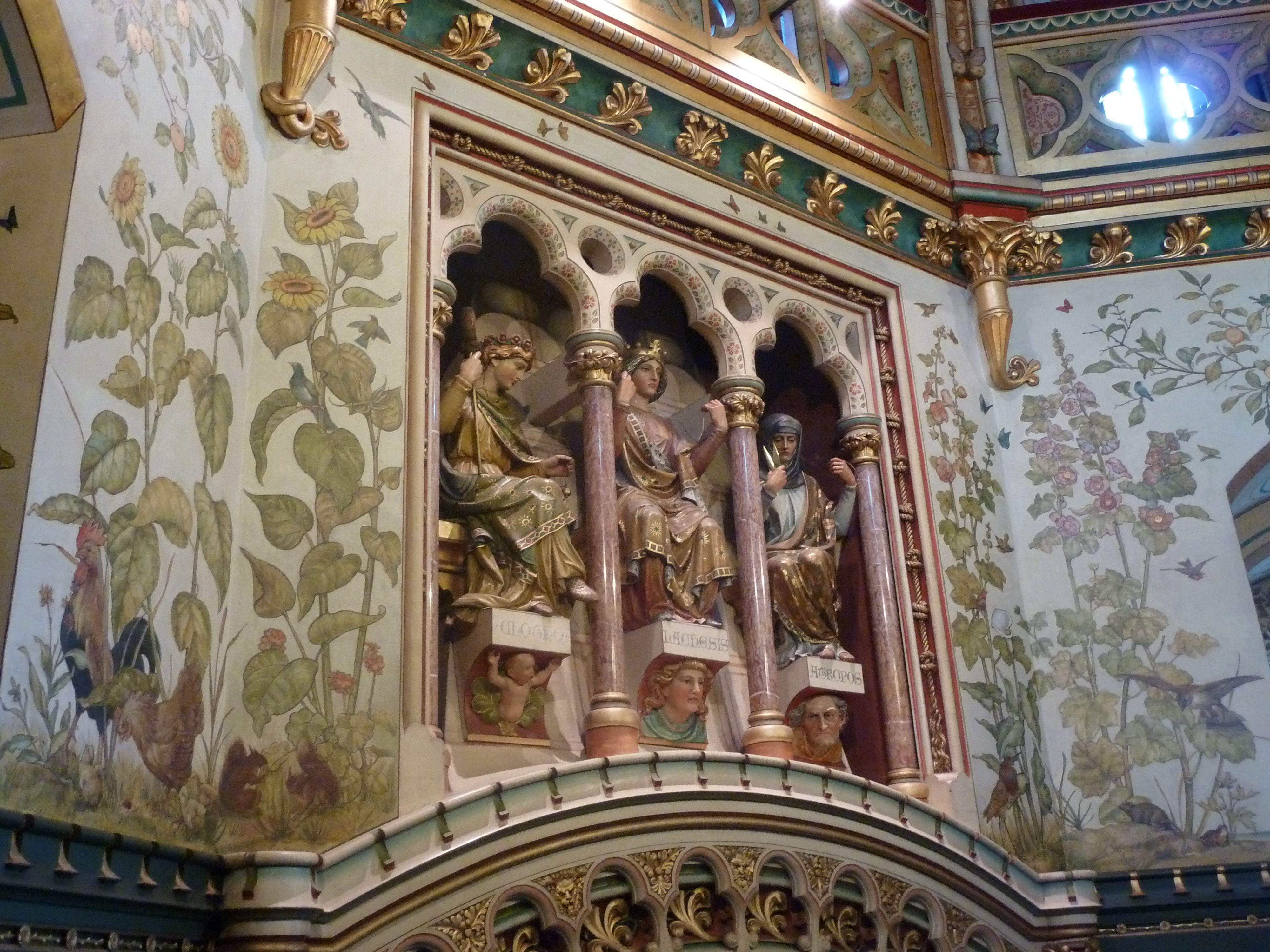 Drawing room at Castell Coch, Wales